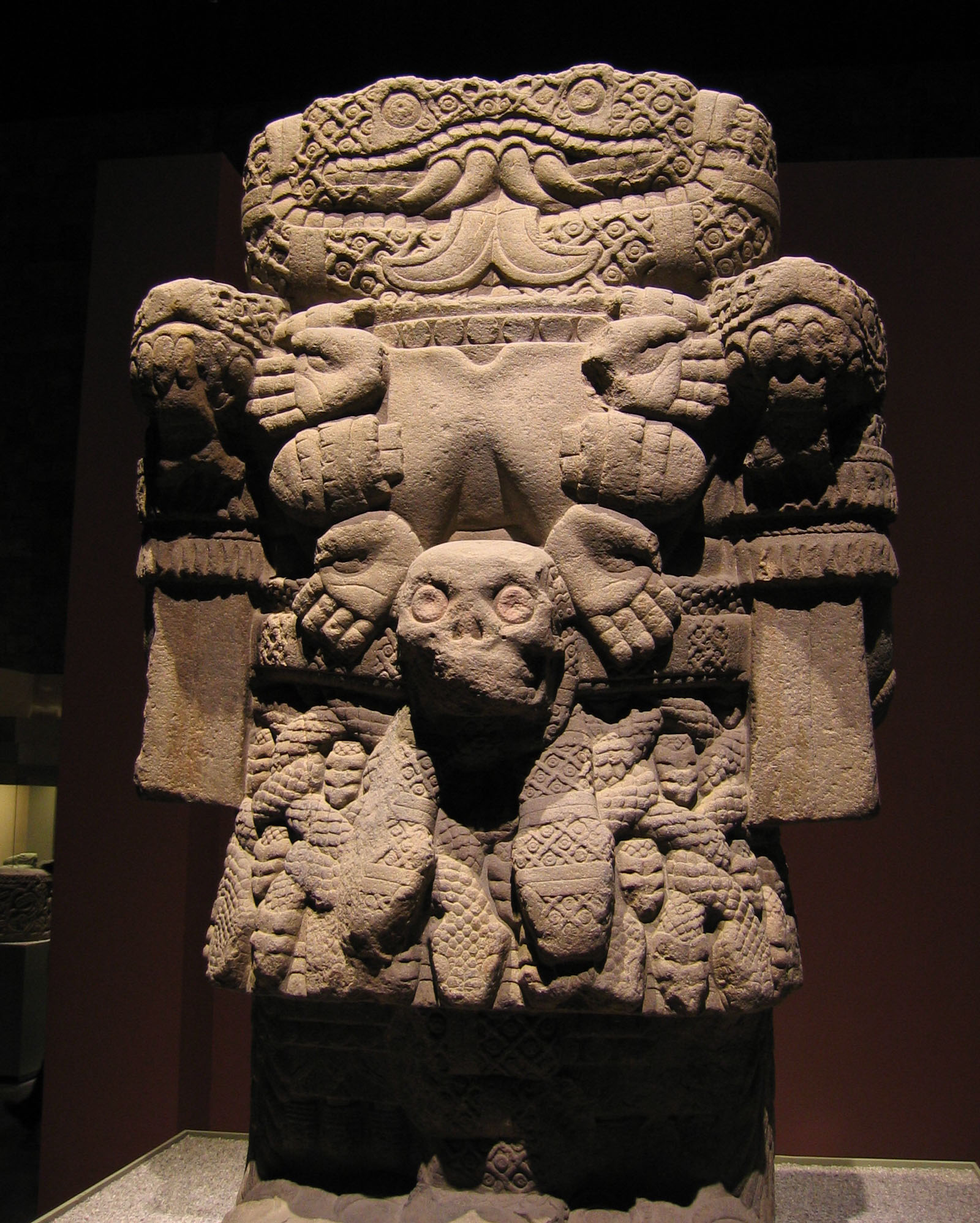 Aztec statue of Coatlicue, the earth goddess from the Museo Nacional de Antropología in Mexico City.